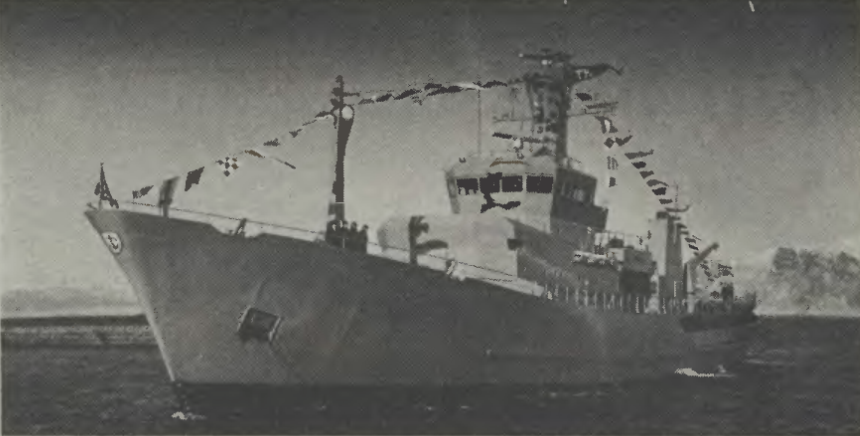 ICELANDIC COAST GUARD VESSEL Týr arrives in Reykjavik March 1975. Published in the Morgunblaðið on the 25. March 1975.